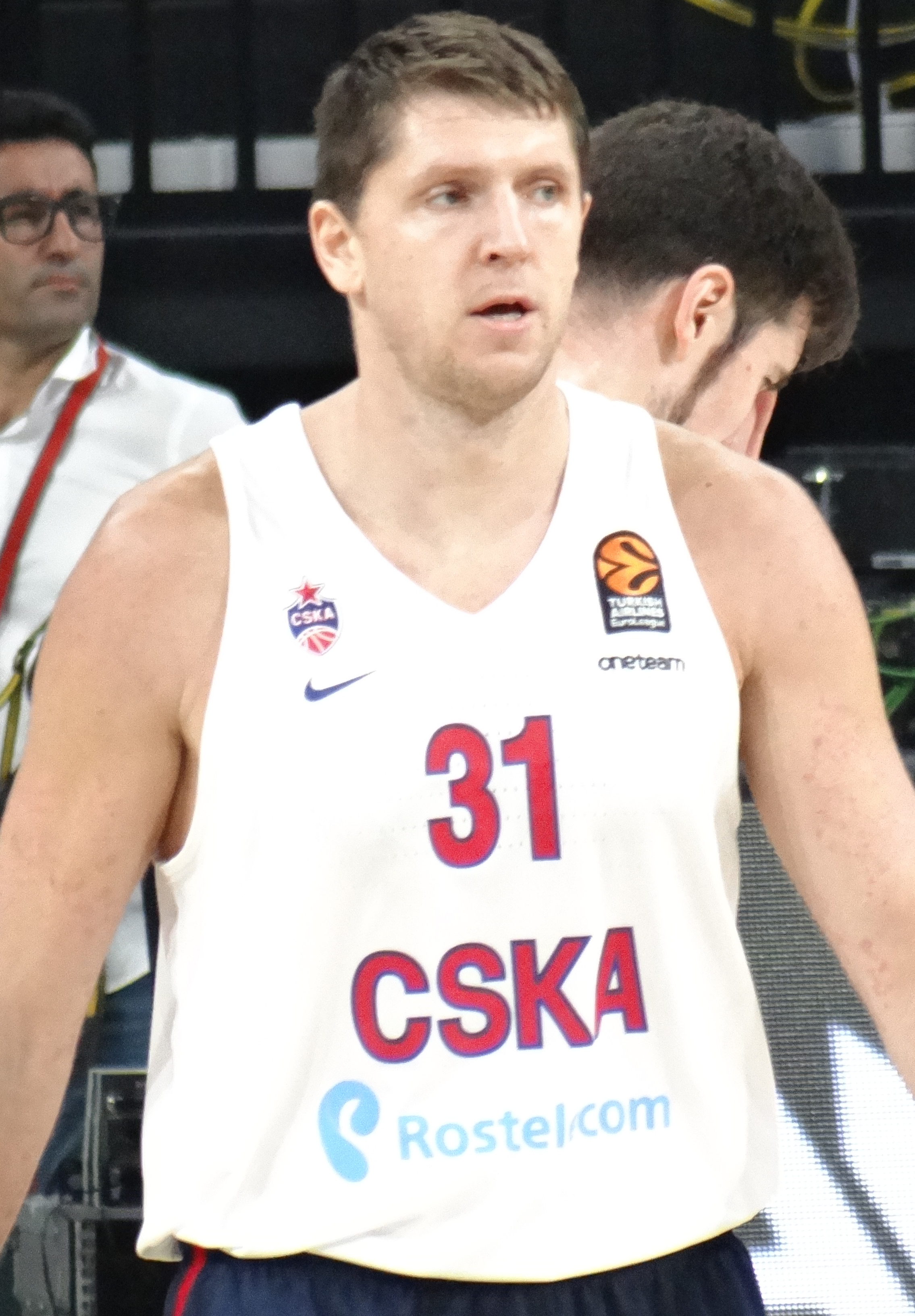 Victor Khryapa 31 PBC CSKA Moscow 20171027